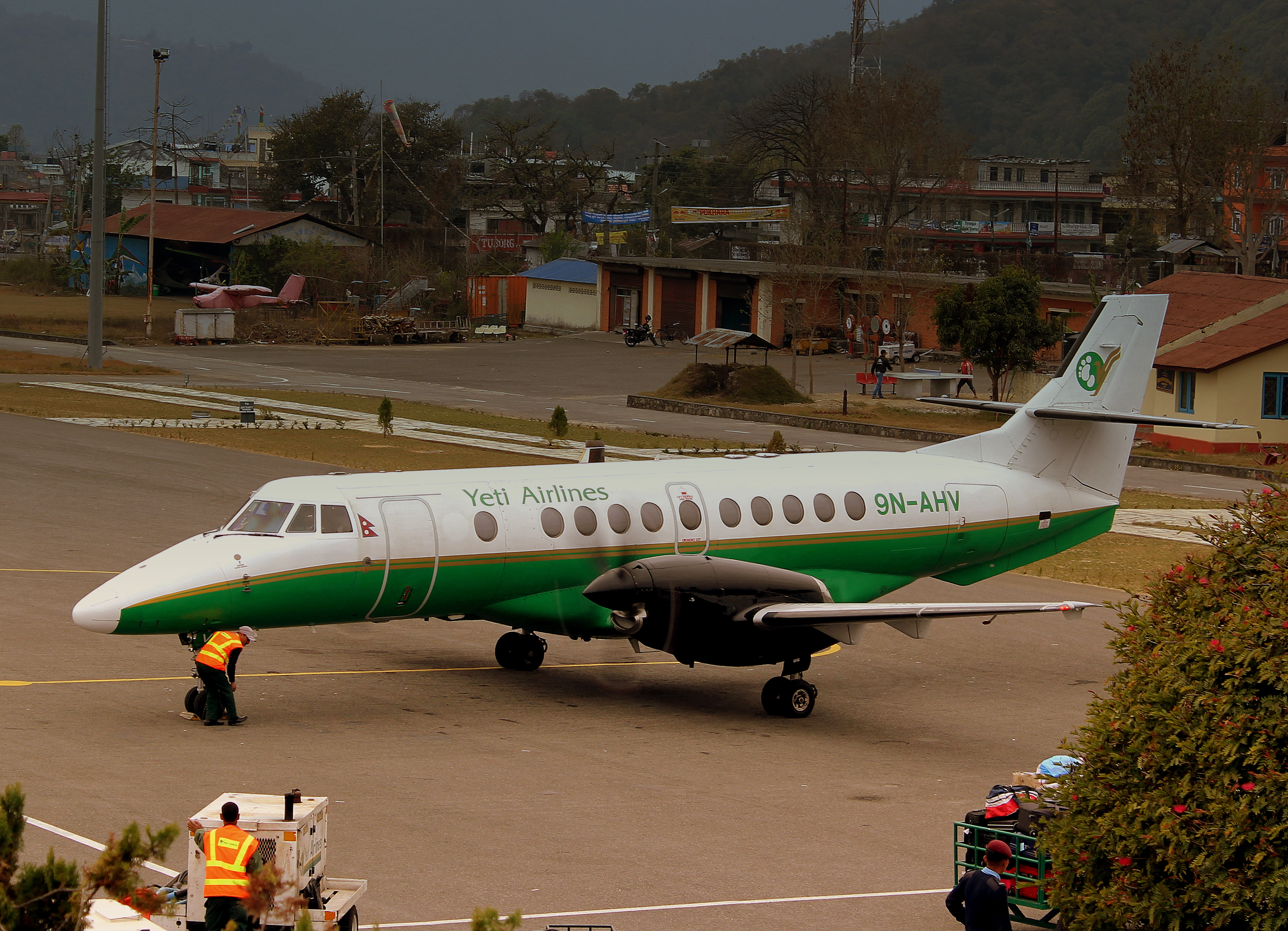 YETI AIRLINES BAE JETSTREAM 41 9N-AHV AT POKHARA AIRPORT NEPAL FEB2013